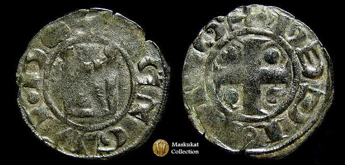 coin of Guy of Lusignan, Cyprus